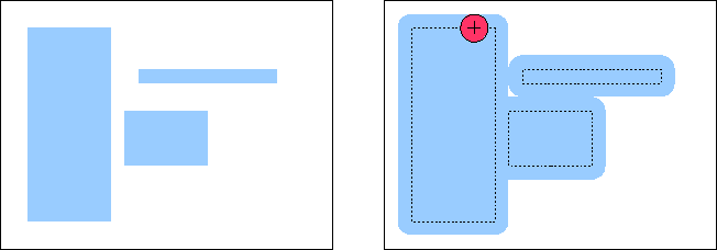 Morphological dilation of a binary image.